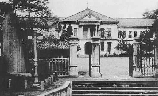 Saitama Prefectural Girls Normal School